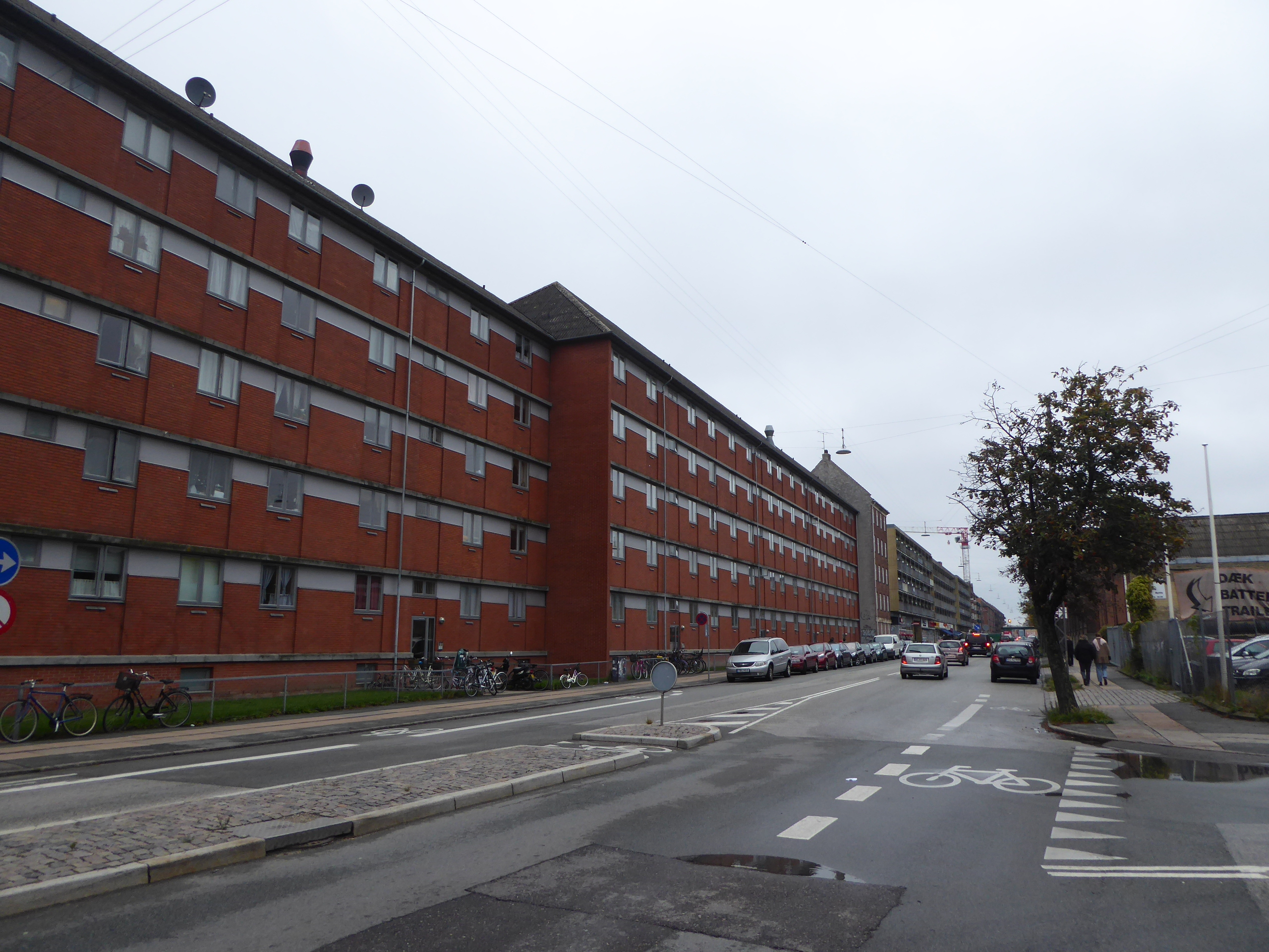 The street Hamletsgade at Nannasgade in Nørrebro in Copenhagen.